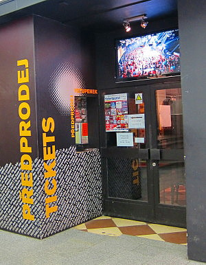 Lucerna Music Bar box office, Prague, CZ